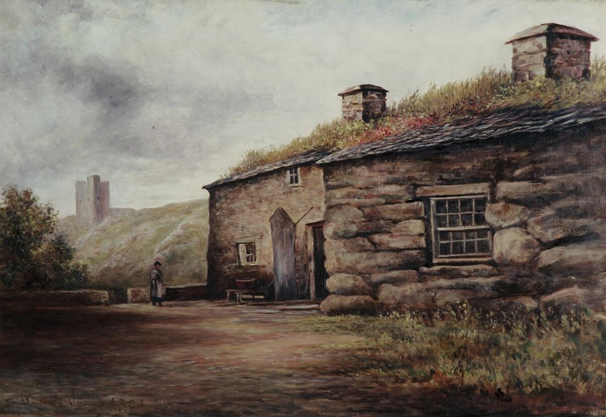 A painting from the Framed Works of Art collection at the National Library of wales.